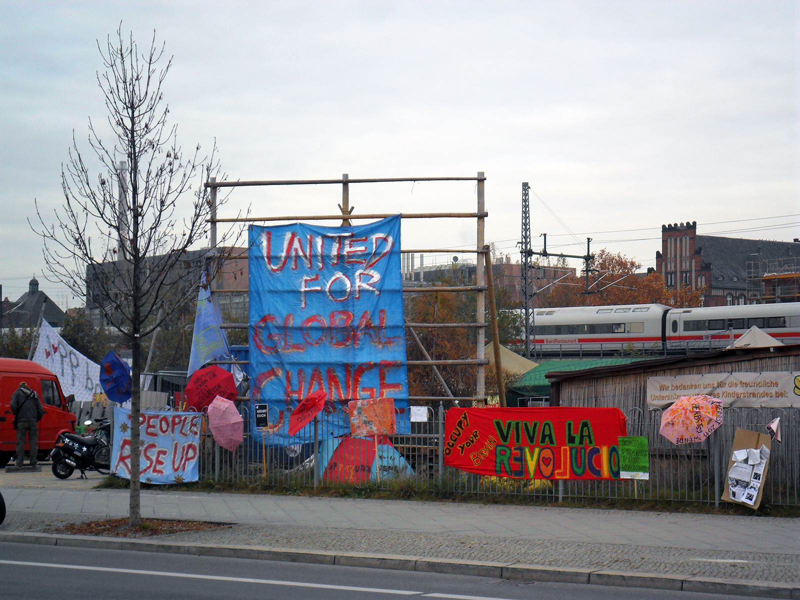 Occupy-Camp in Berlin at the Kapelle-Ufer, 2011.